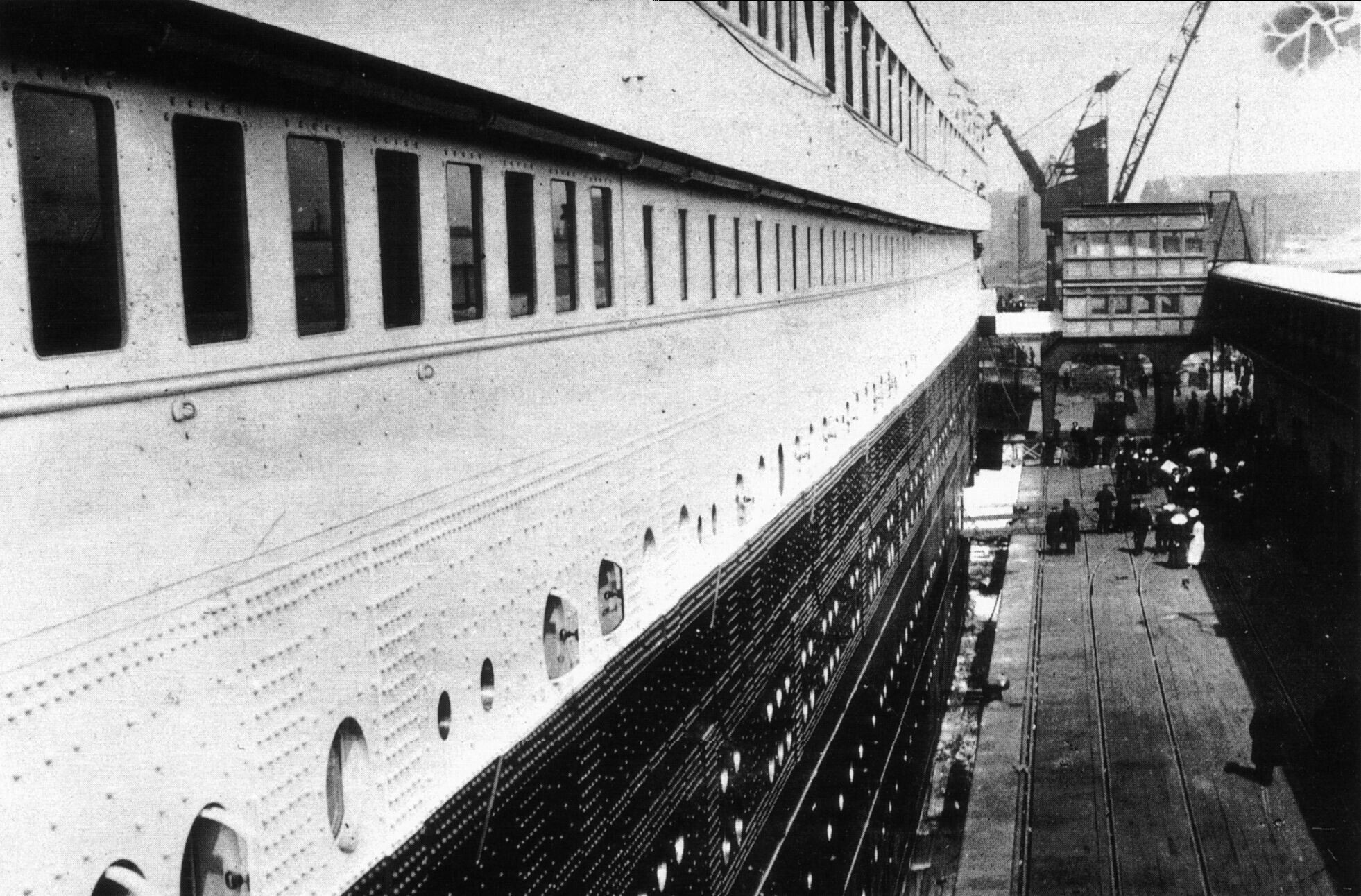 Titanic by Irish photographer Francis Browne